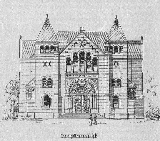 Architect drawing of the synagogue in Baden-Baden (Germany) destroyed in 1938 during the Kristallnacht